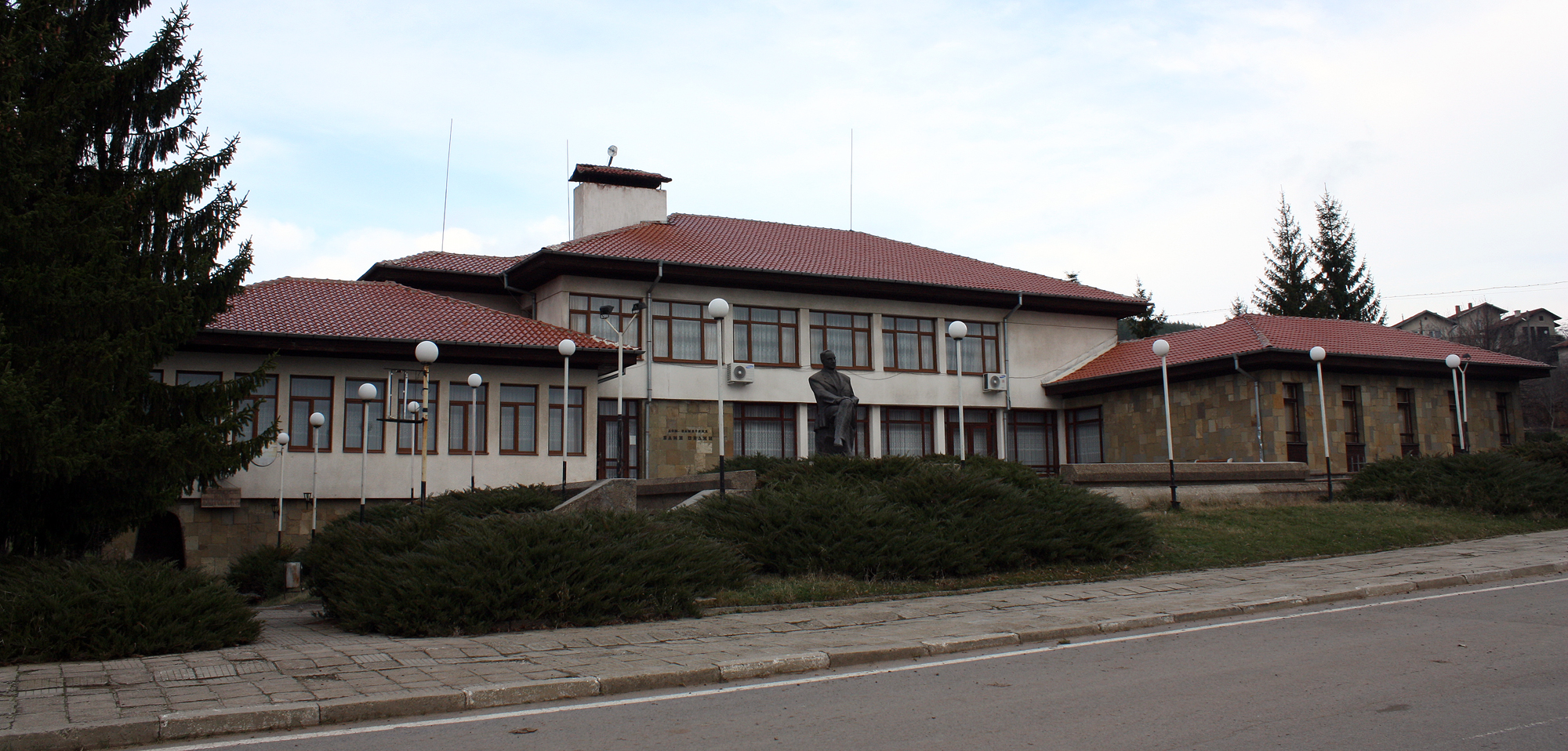 Monument-House of Elin Pelin